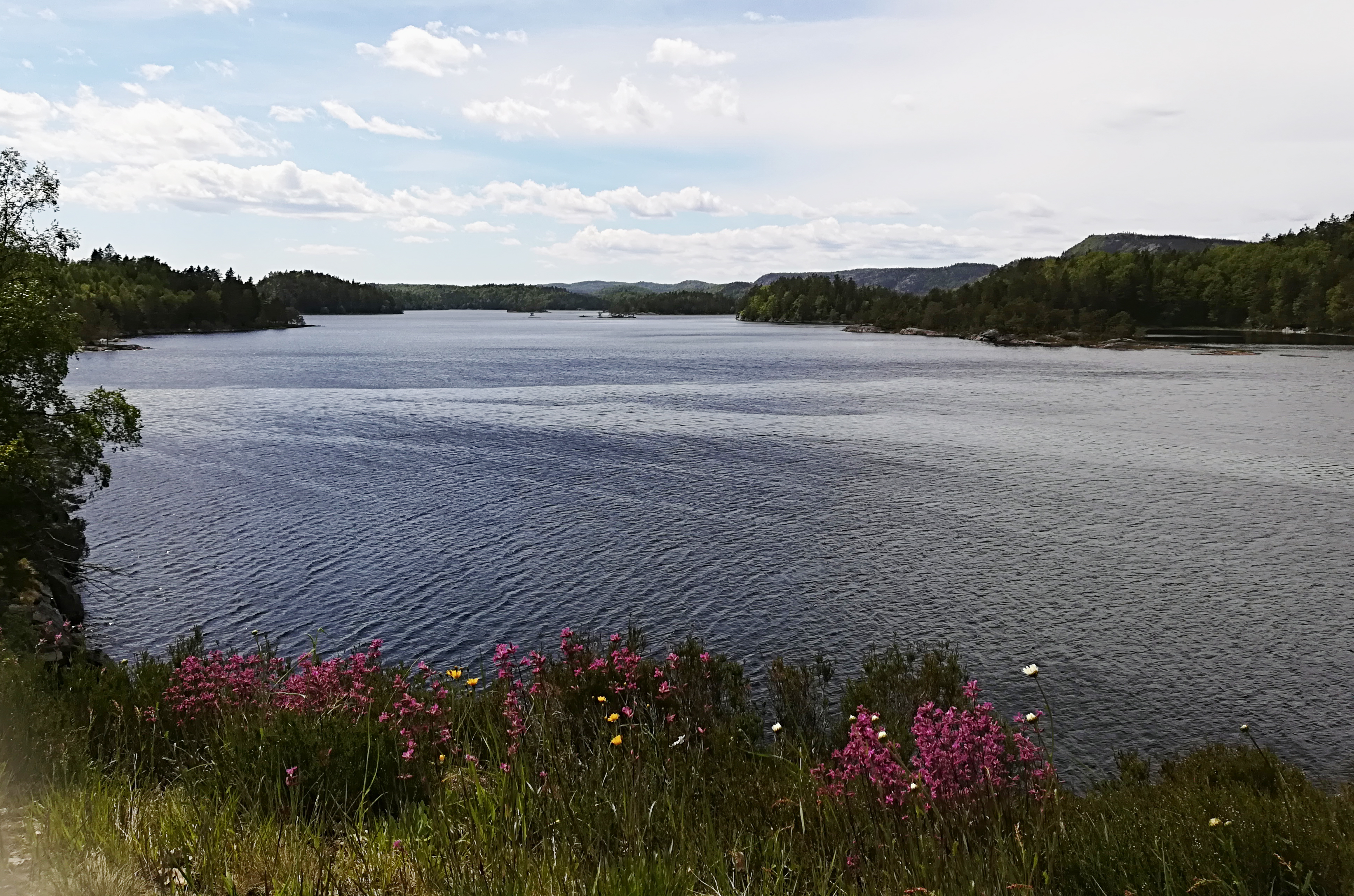 Lake Syndle